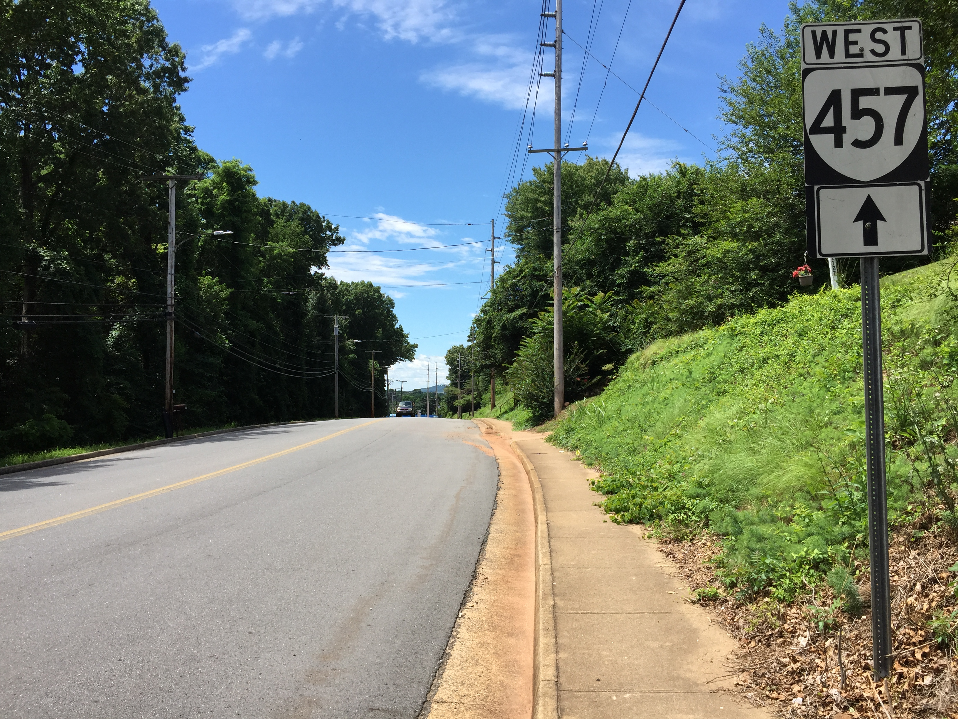 View west along Virginia State Route 457 (Chatham Heights Road) at Myrtle Road in Martinsville, Virginia